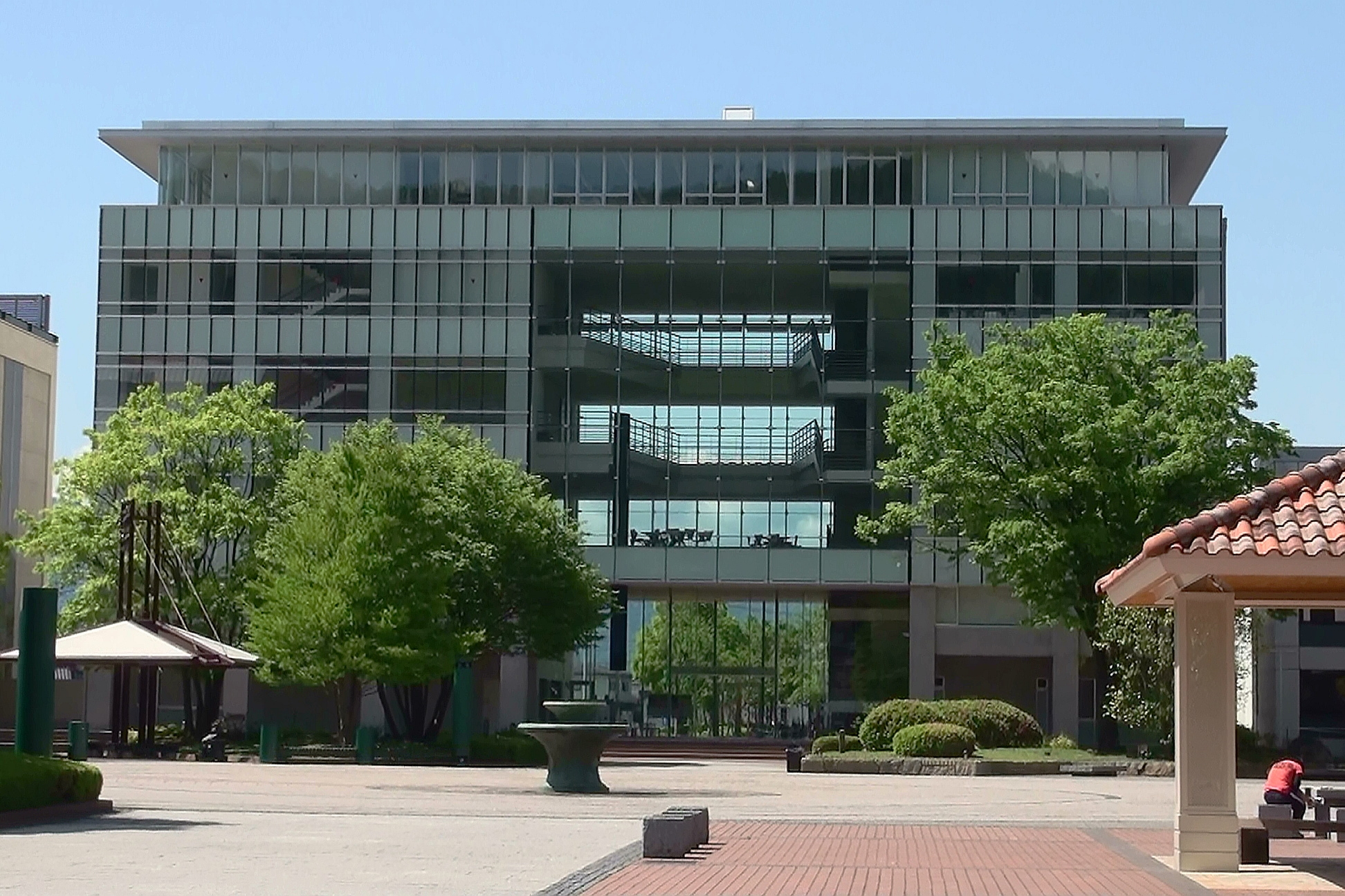 Yamanashi Gakuin University Southern tower